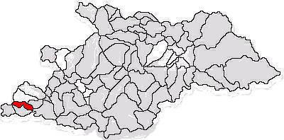 Limits of Băseşti commune in Maramureş County